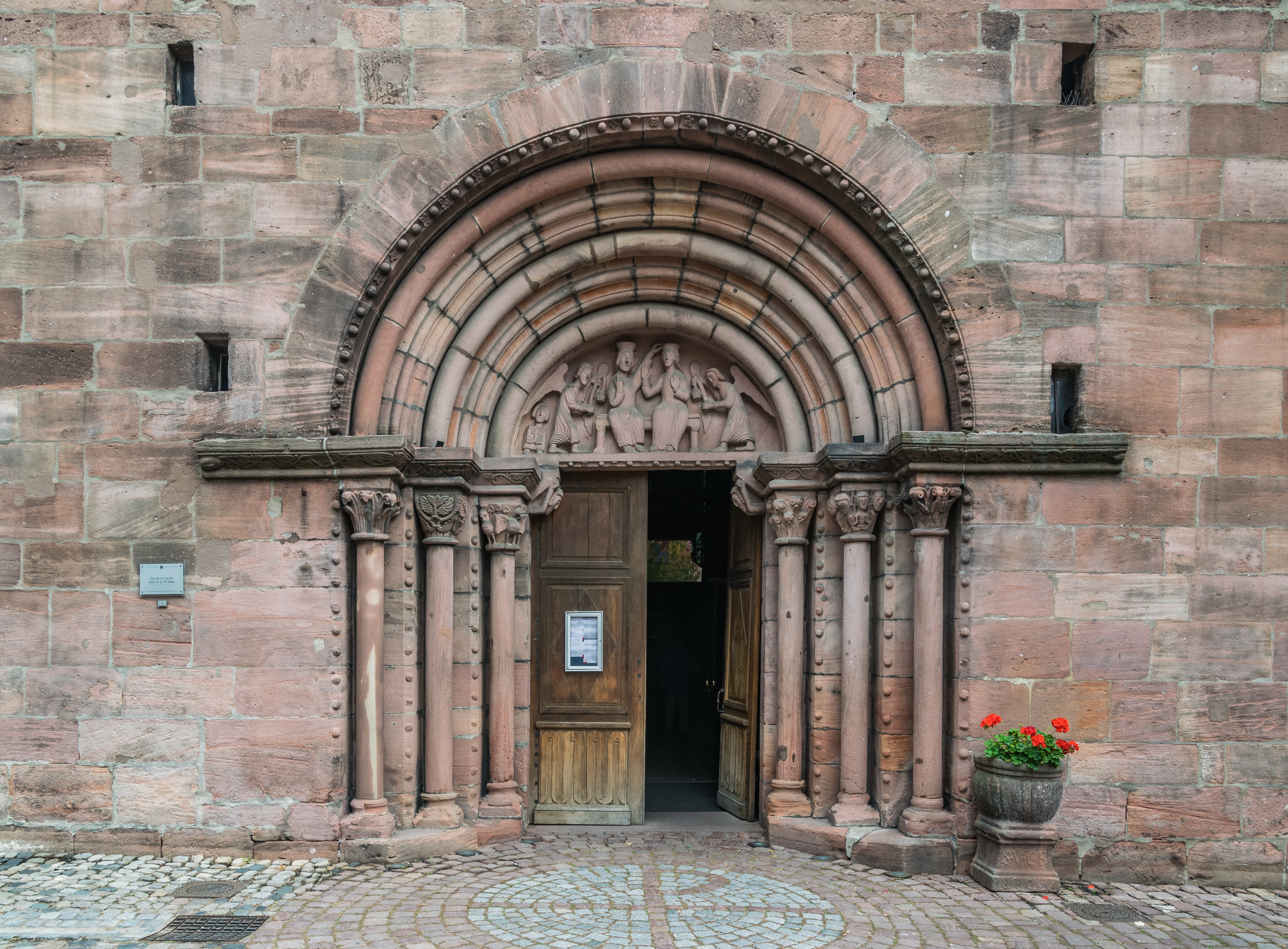 Portal of the Holy Cross church in Kaysersberg, Haut-Rhin, France .